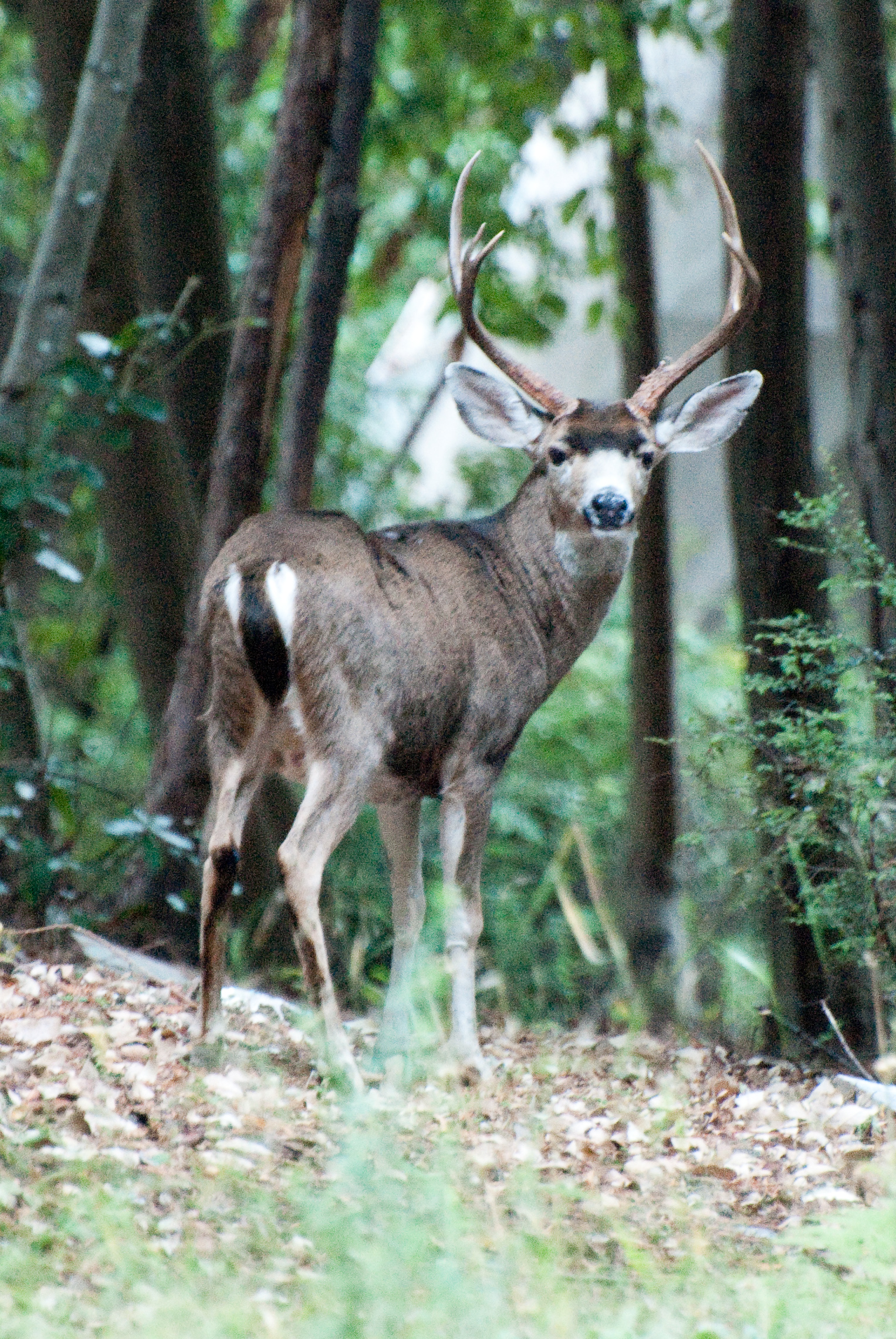 Photo of a Deer on Alba in Ben Lomond, CA.